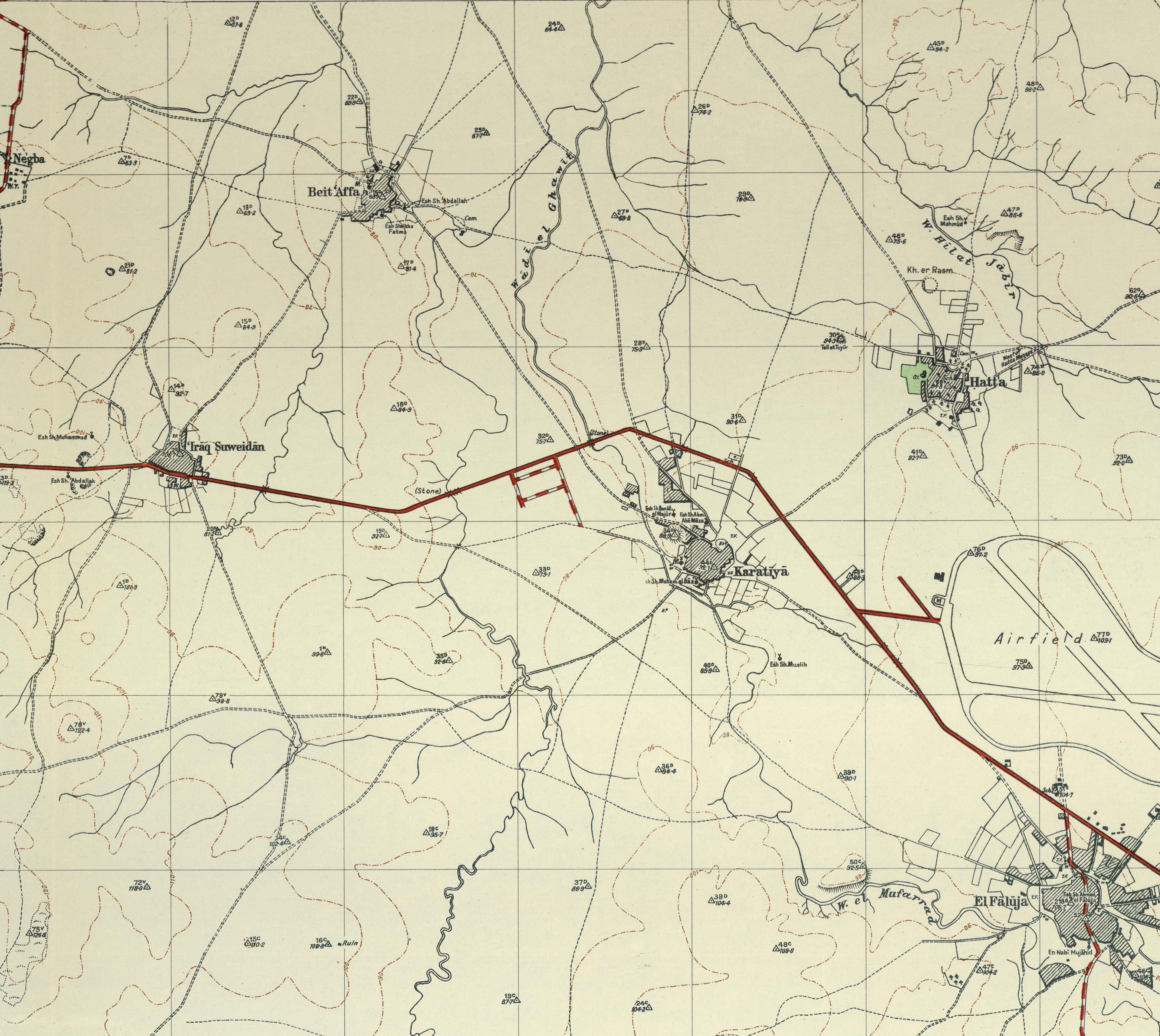 Beit 'Affa 1948 1:20,000